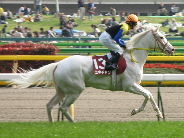 Yukichan at the 43rd Flora Stakes(JpnII)